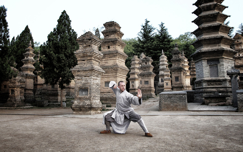 shi xing mi 1